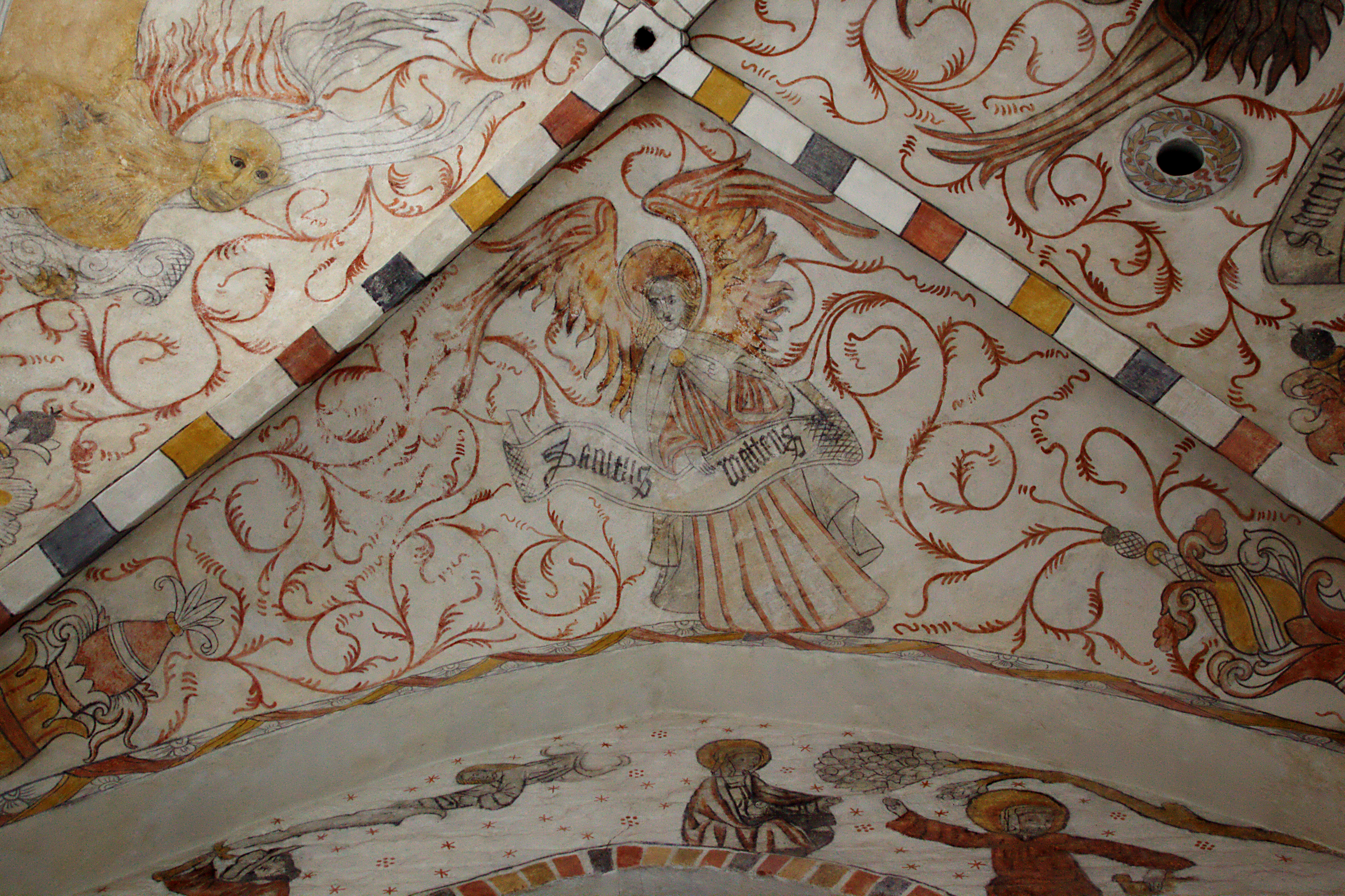 Fresco in Aalborg Domkirke